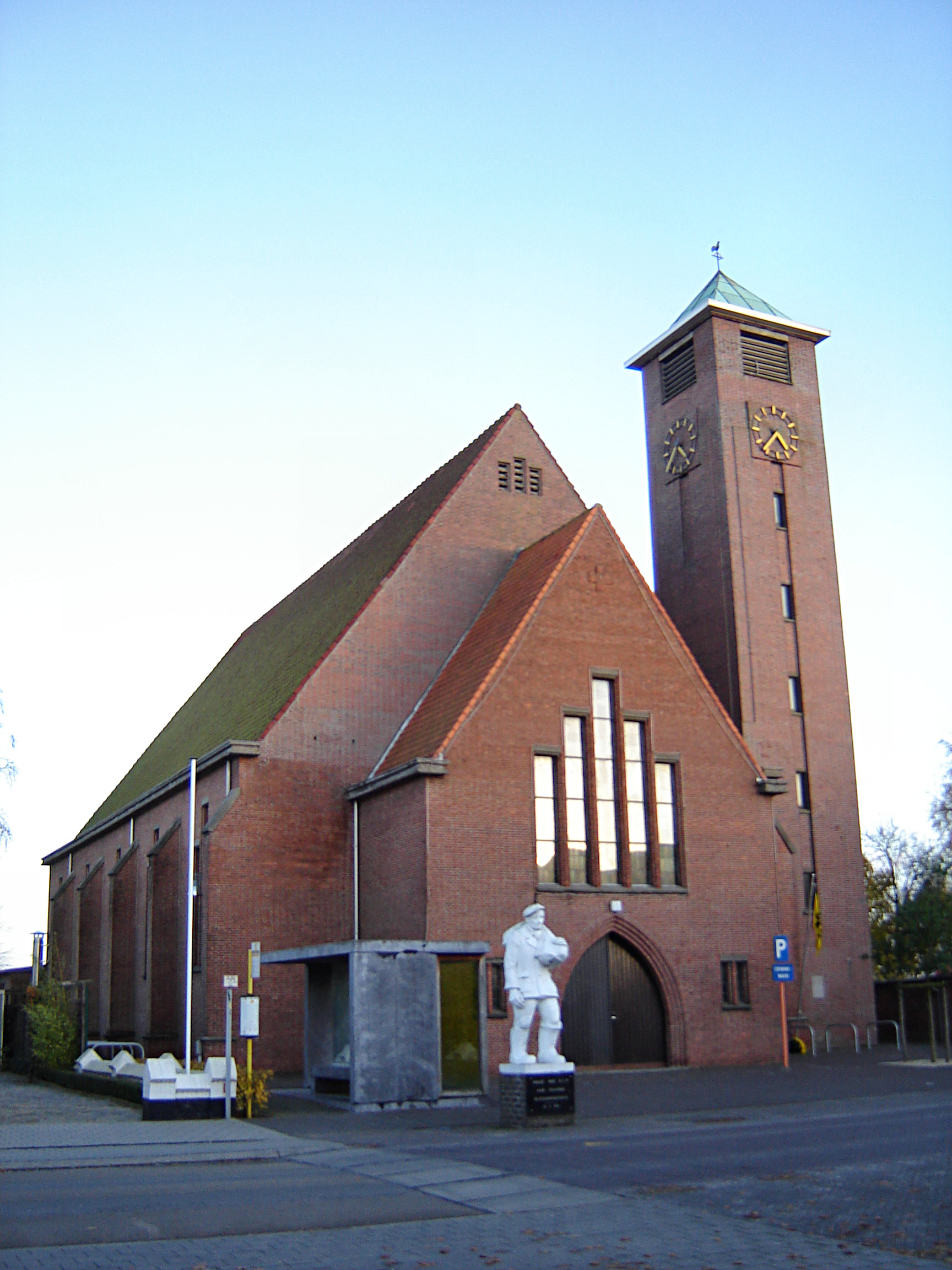 Church of Our Lady in Madonna. Madonna, Langemark, Langemark-Poelkapelle, West Flanders, Belgium